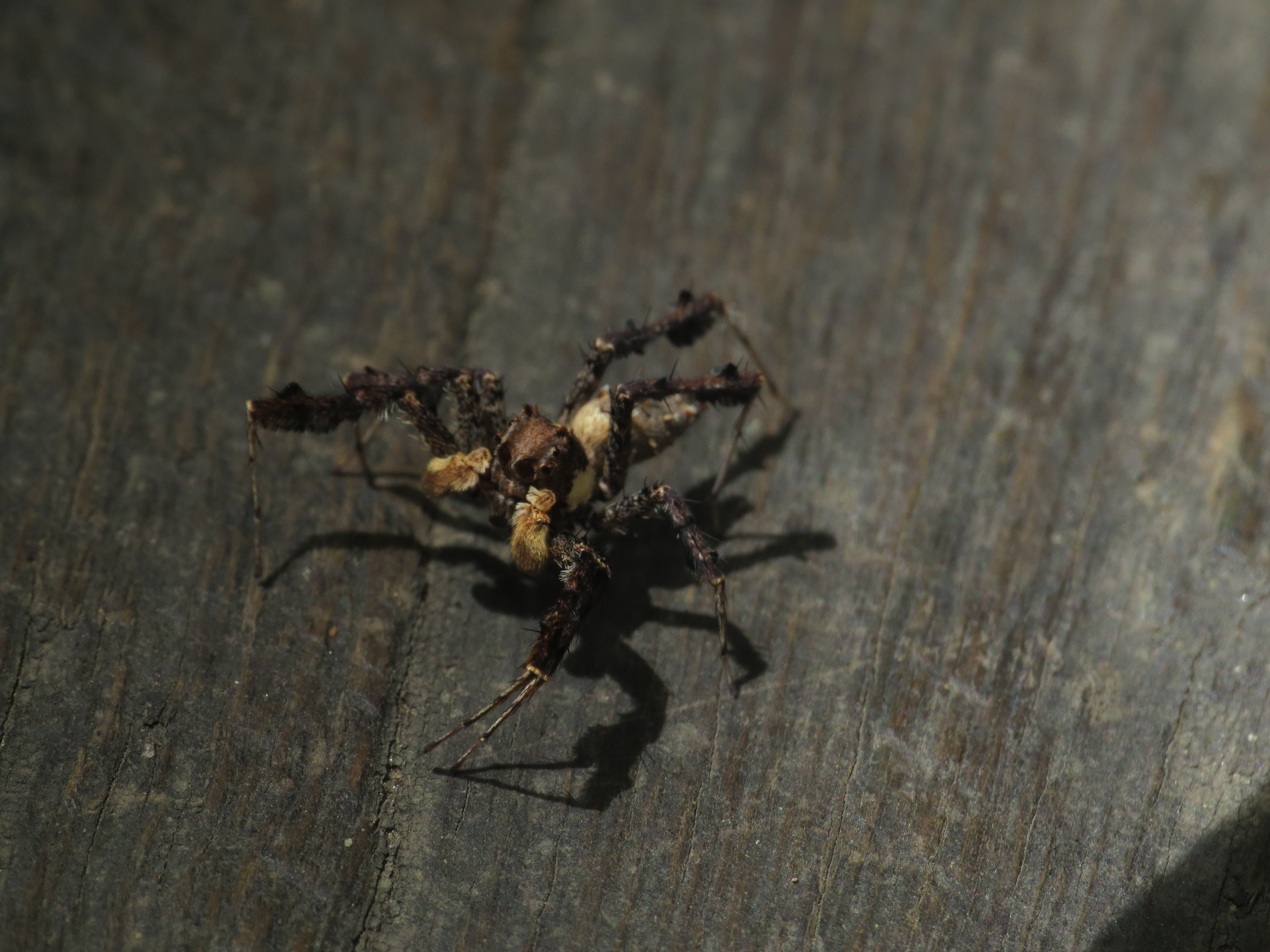 Portia fimbriata (Doleschall, 1859), Cairns Botanic Garden, Cairns, QLD, 21 November 2014